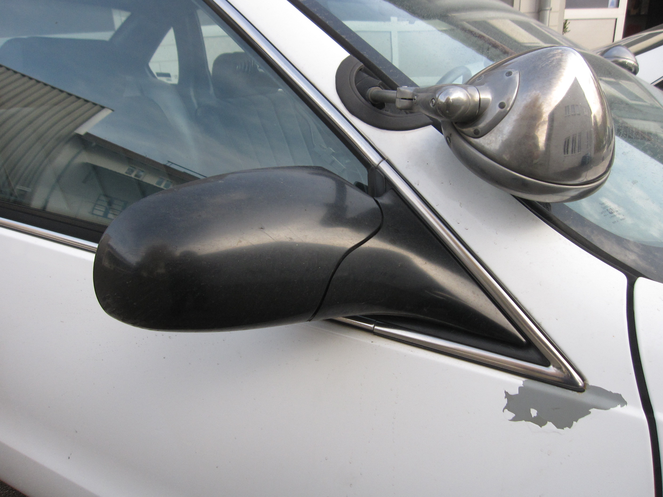 Outside rear view mirror, as used on Chevrolet Caprices 1995 and 1996